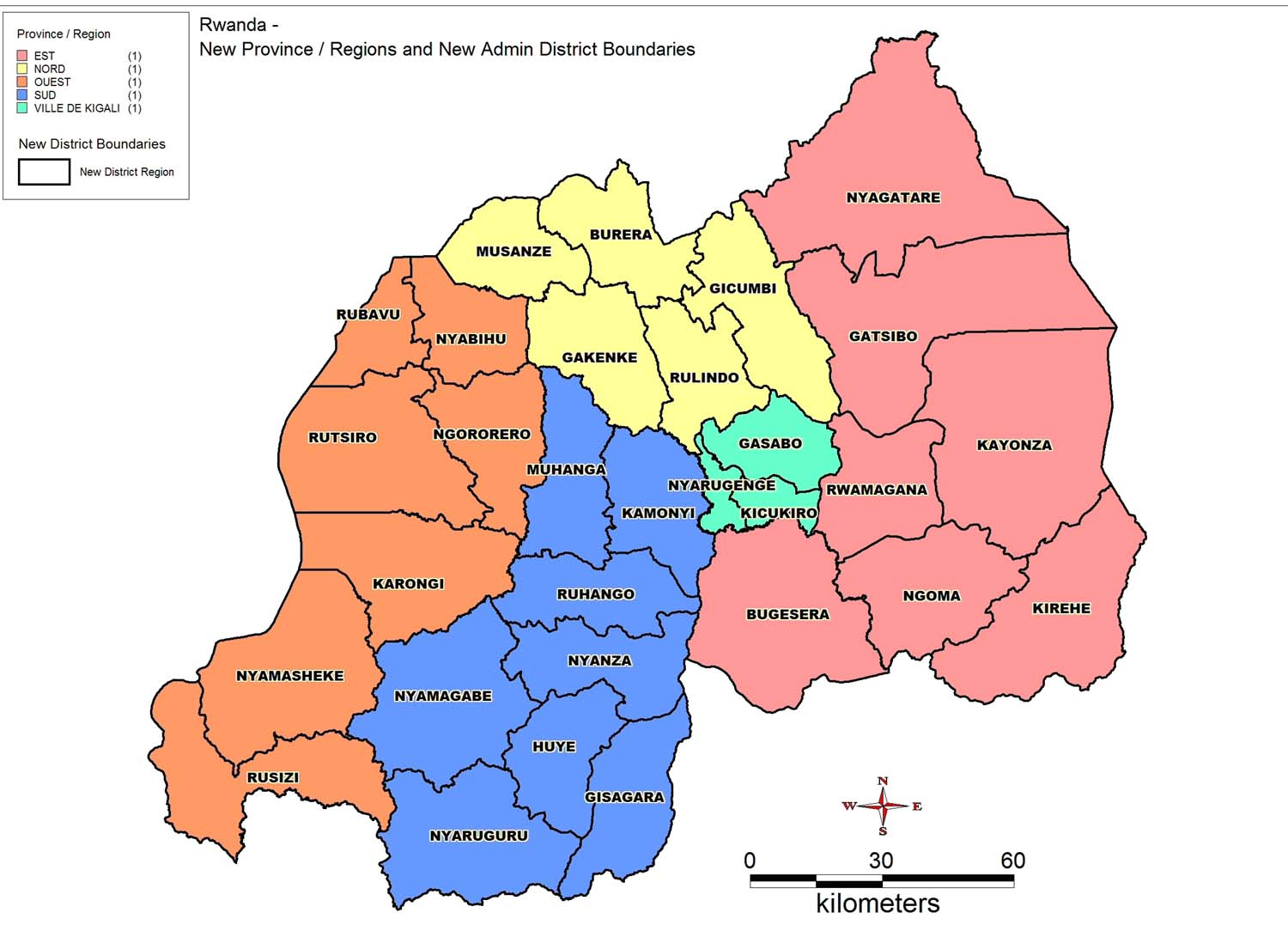 Map of Rwanda's Districts within their respective provinces